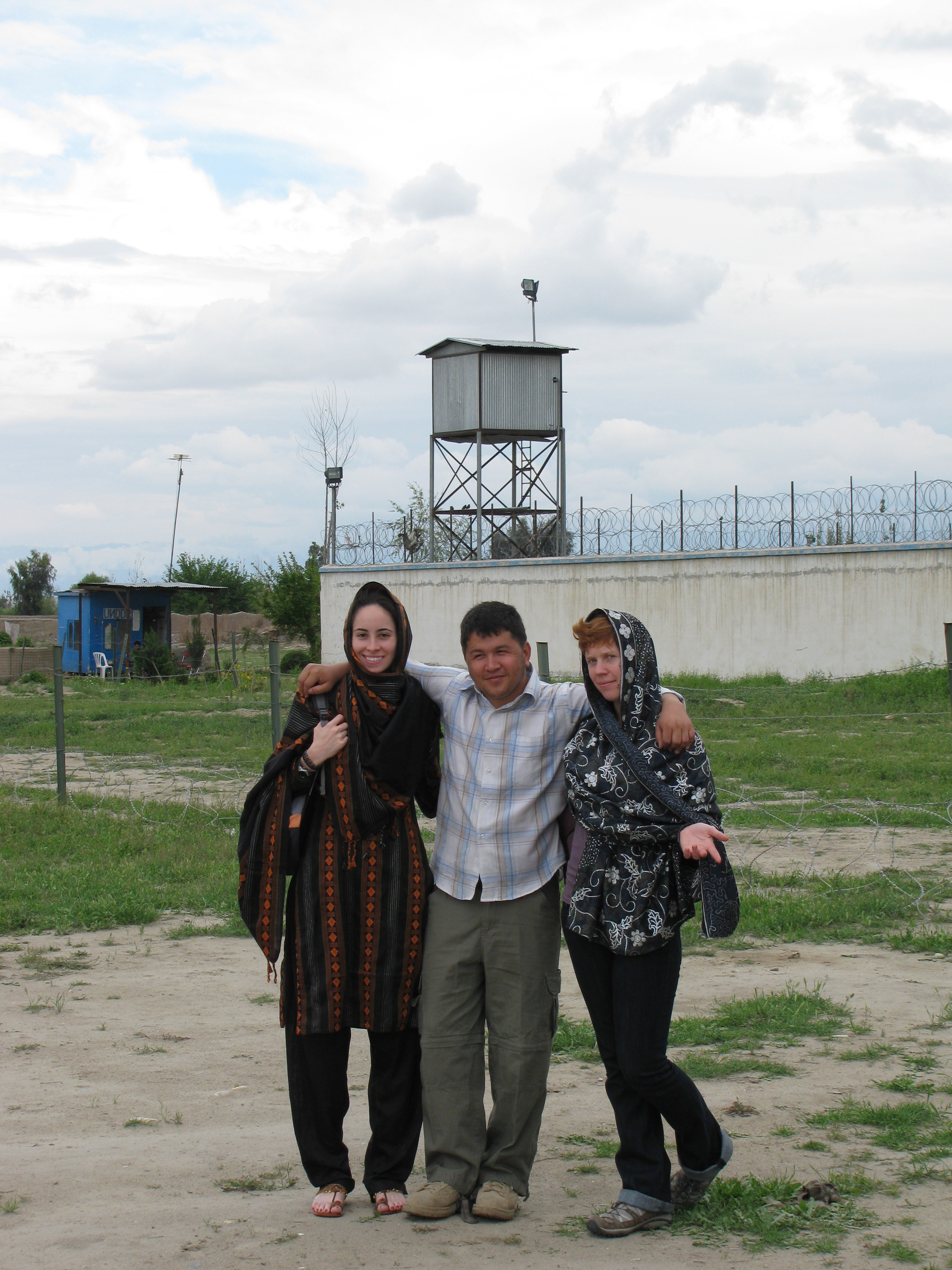 Kate with the interpreter outside the UN compound